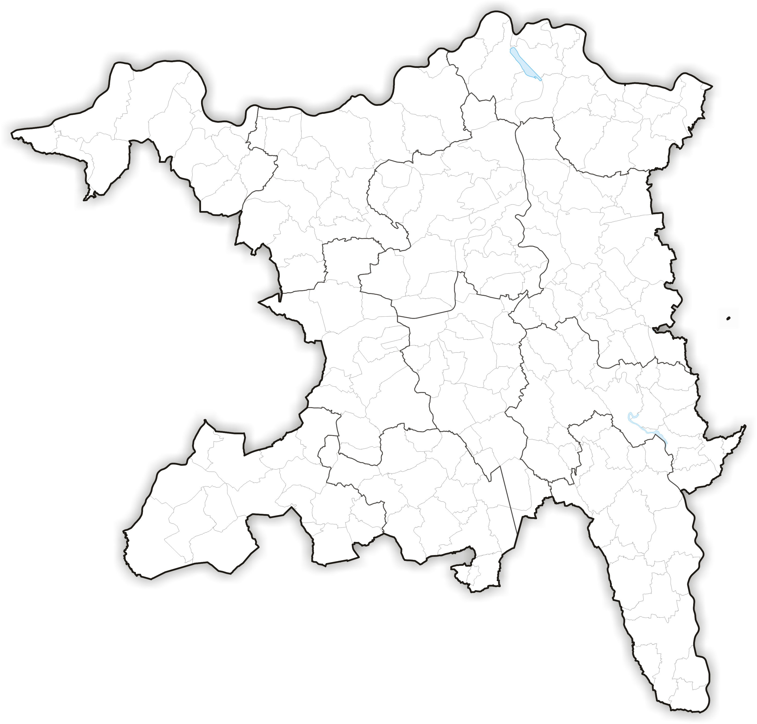 Municipalities in Canton Aargau